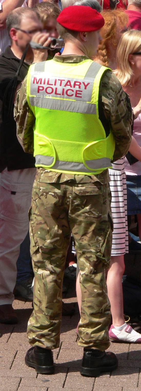 Military police of the United Kingdom in Menschenmenge